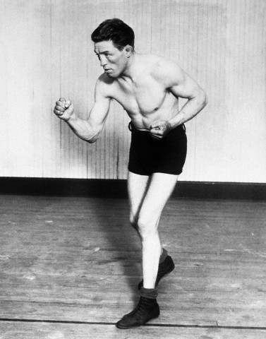 Boxer Ted "Kid" Lewis in fighting pose.